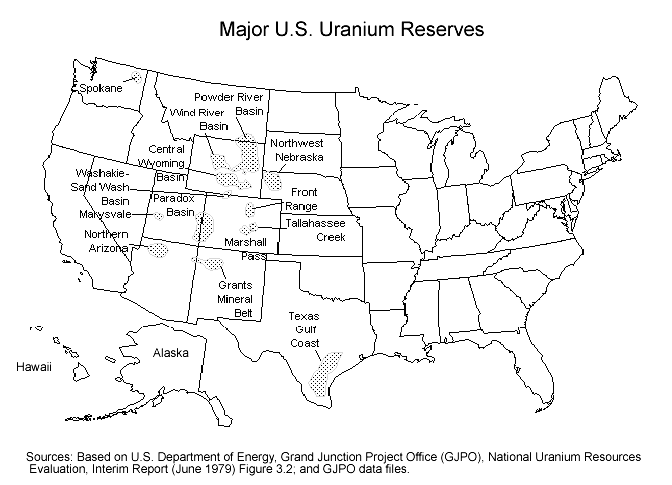 Map of US uranium reserves